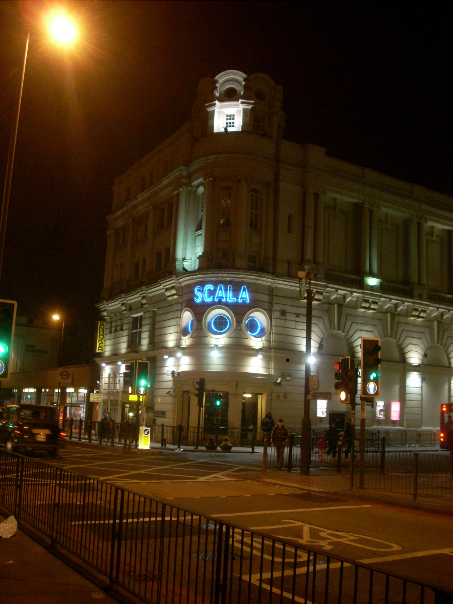 The Scala nightclub in Kings Cross, London.